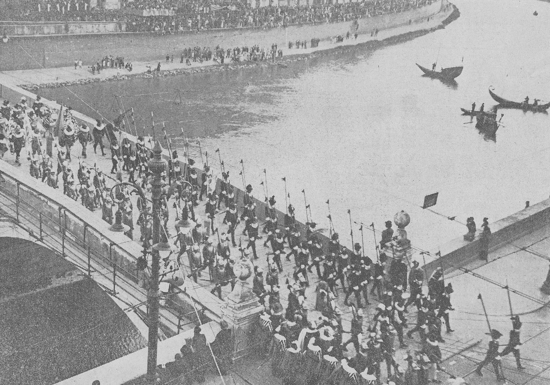 "Gioco del Ponte" (Bridge Game) in Pisa, Tuscany, Italy.